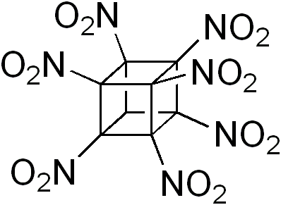 chemical structure of heptanitrocubane